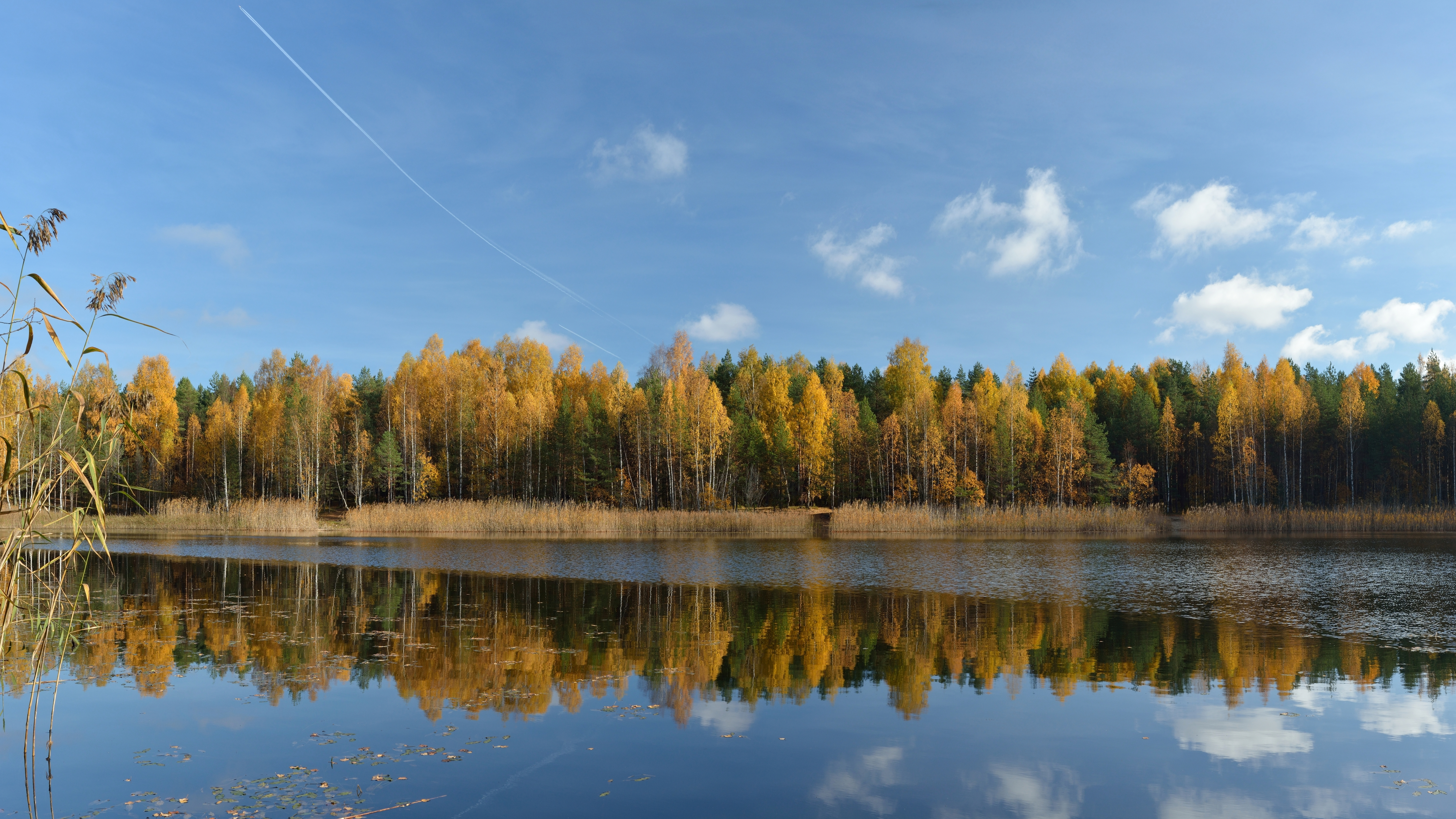 Lake Martiska, Kurtna Landscape Reserve. Surface area 3.0 ha, deepness as far as 9.0 m.